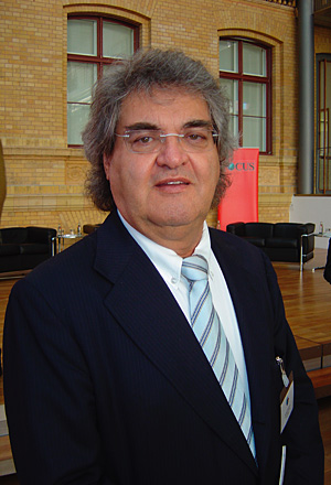 Helmut Markwort, formerly Editor-in-chief of the German magazine Focus. Picture taken in Berlin while he was awarding a prize to several school groups.